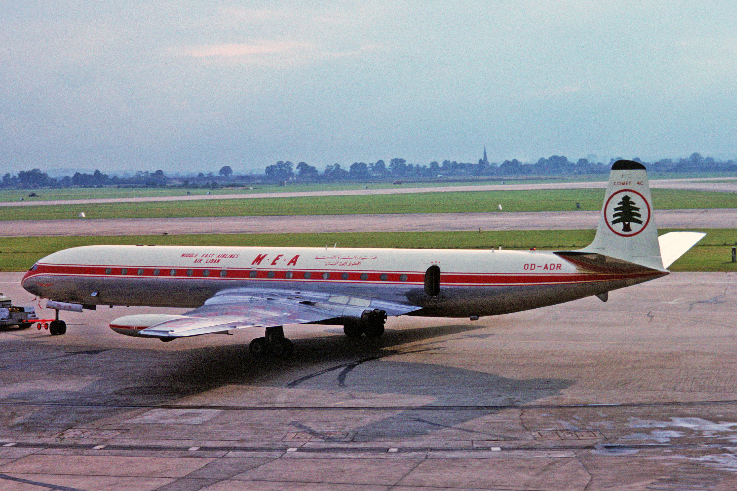 Middle East Airlines de Havilland DH106 Comet 4C (OD-ADR) at London Heathrow Airport